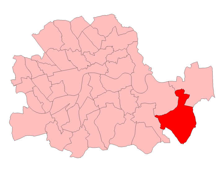 A map of Woolwich West constituency within the London County Council area, as it existed from 1950 to 1974.